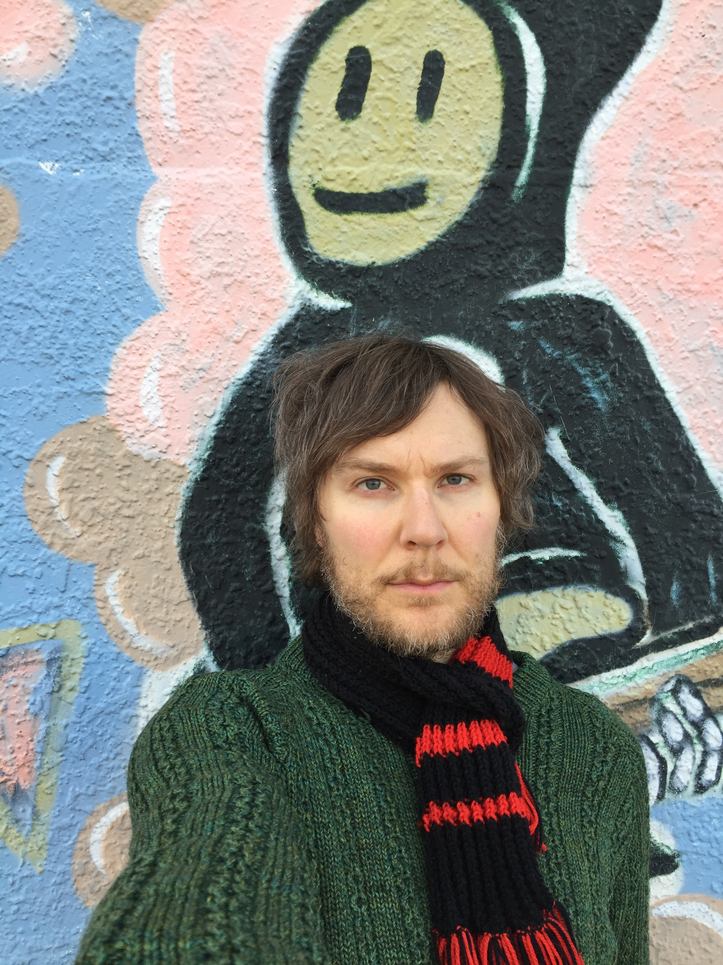 Justin Heazlewood - Burnie Police & Citizens Boys & Girls Club, 2015